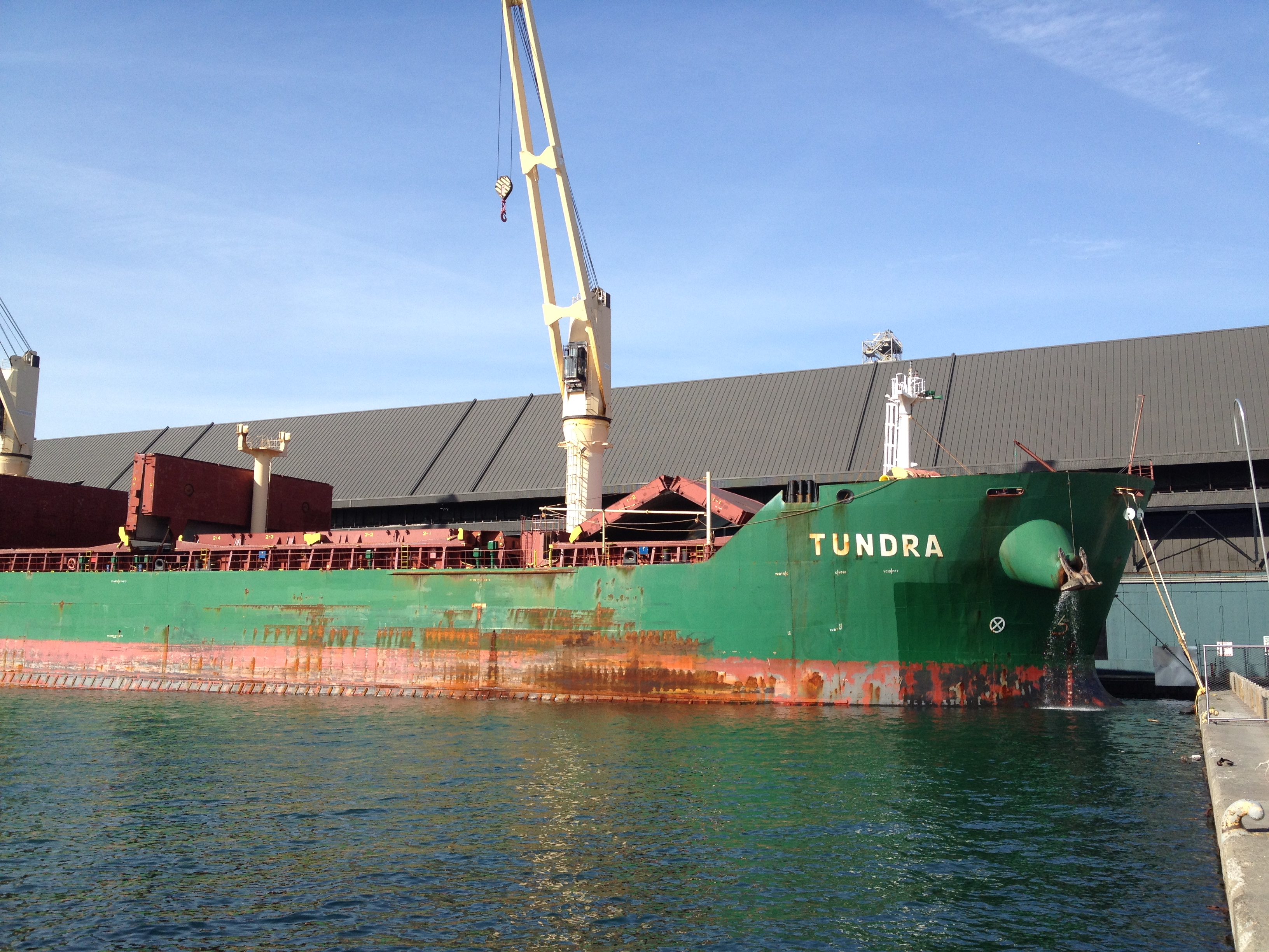 The MV Tundra bulk carrier moored at the Redpath Sugar Refinery, Queens Quay, Toronto, Ontario, Canada.